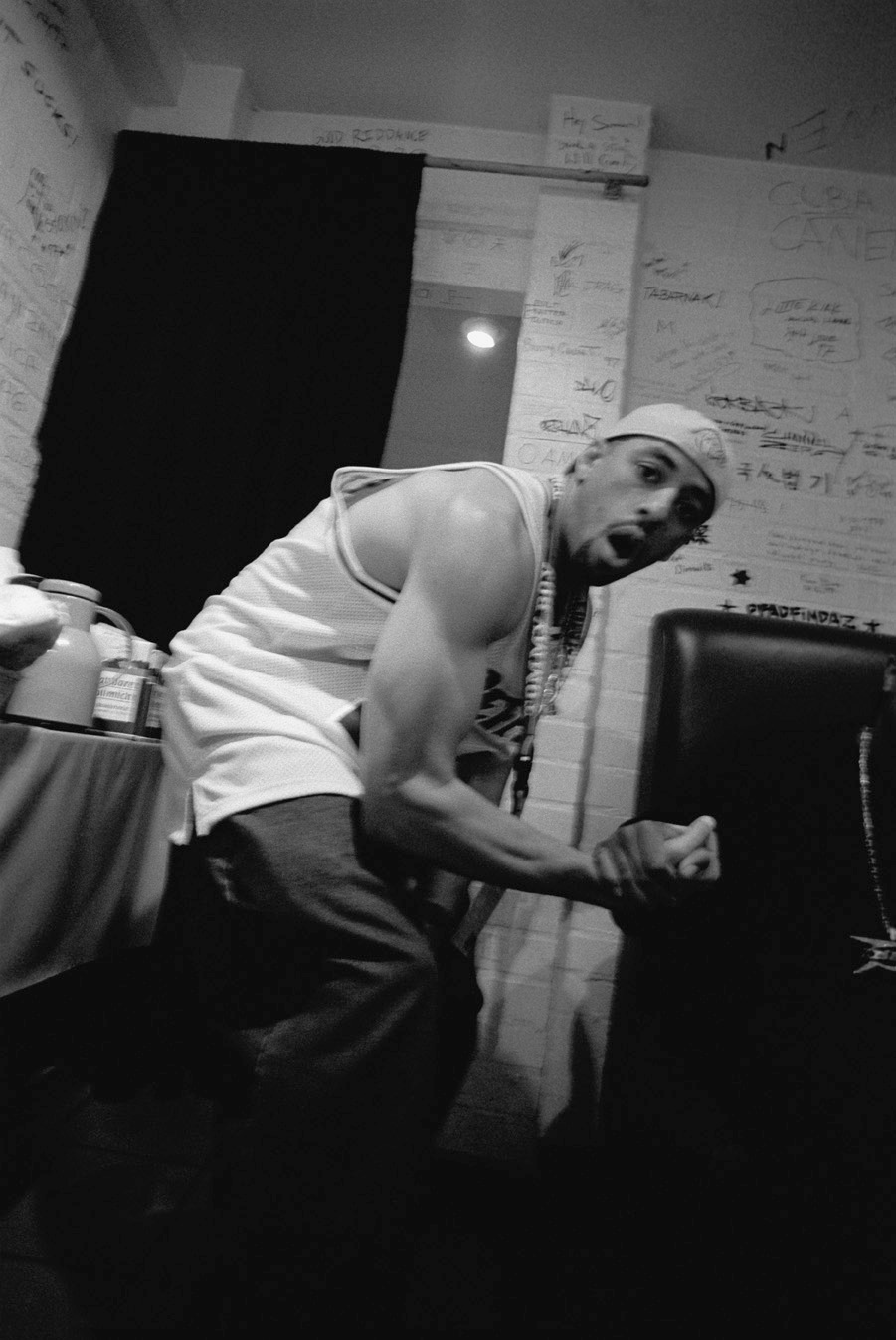 rapper Defari backstage in Hamburg/Germany 2000